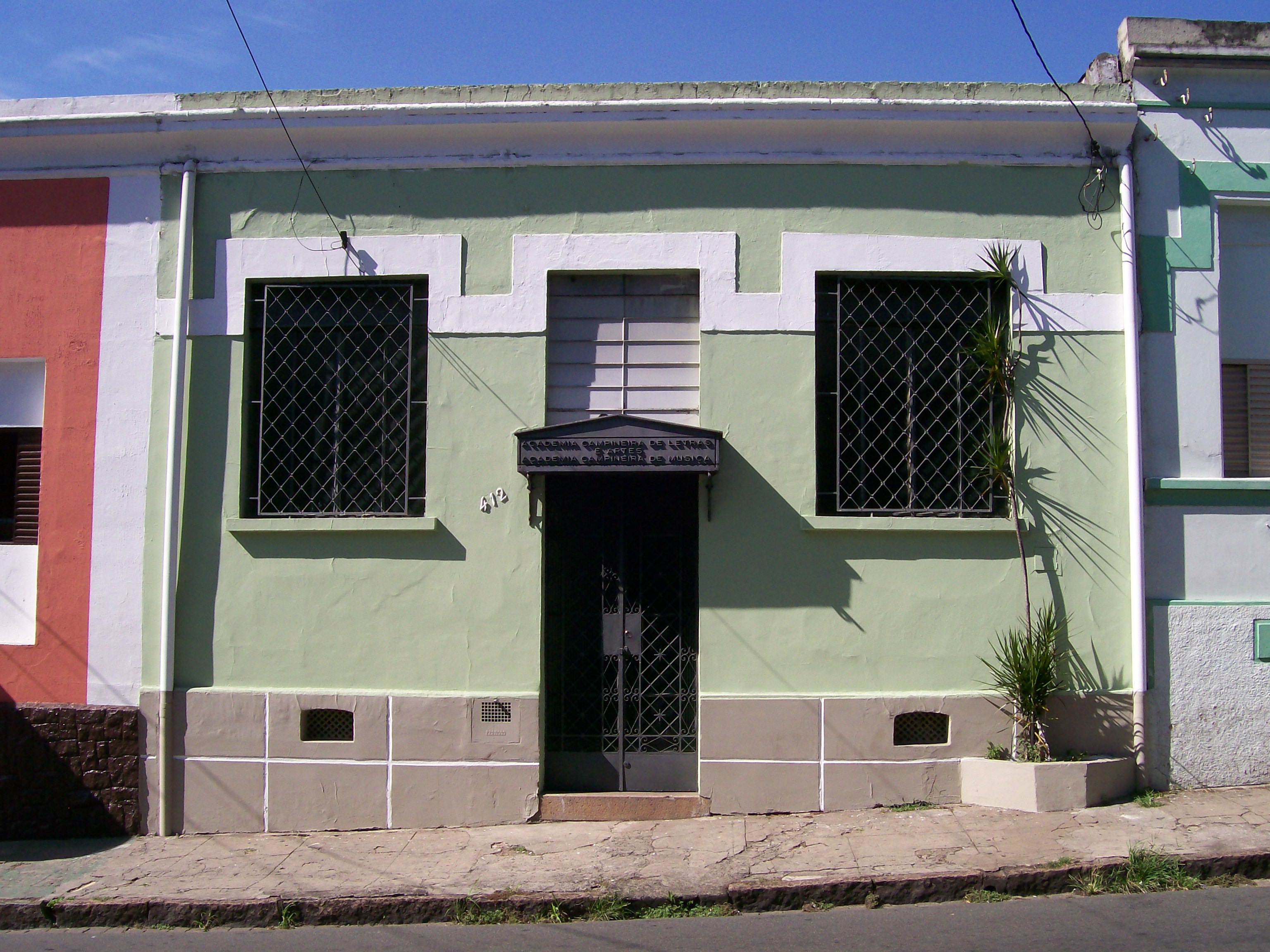 Campinas Letters and Arts Academy. Campinas, Brazil.